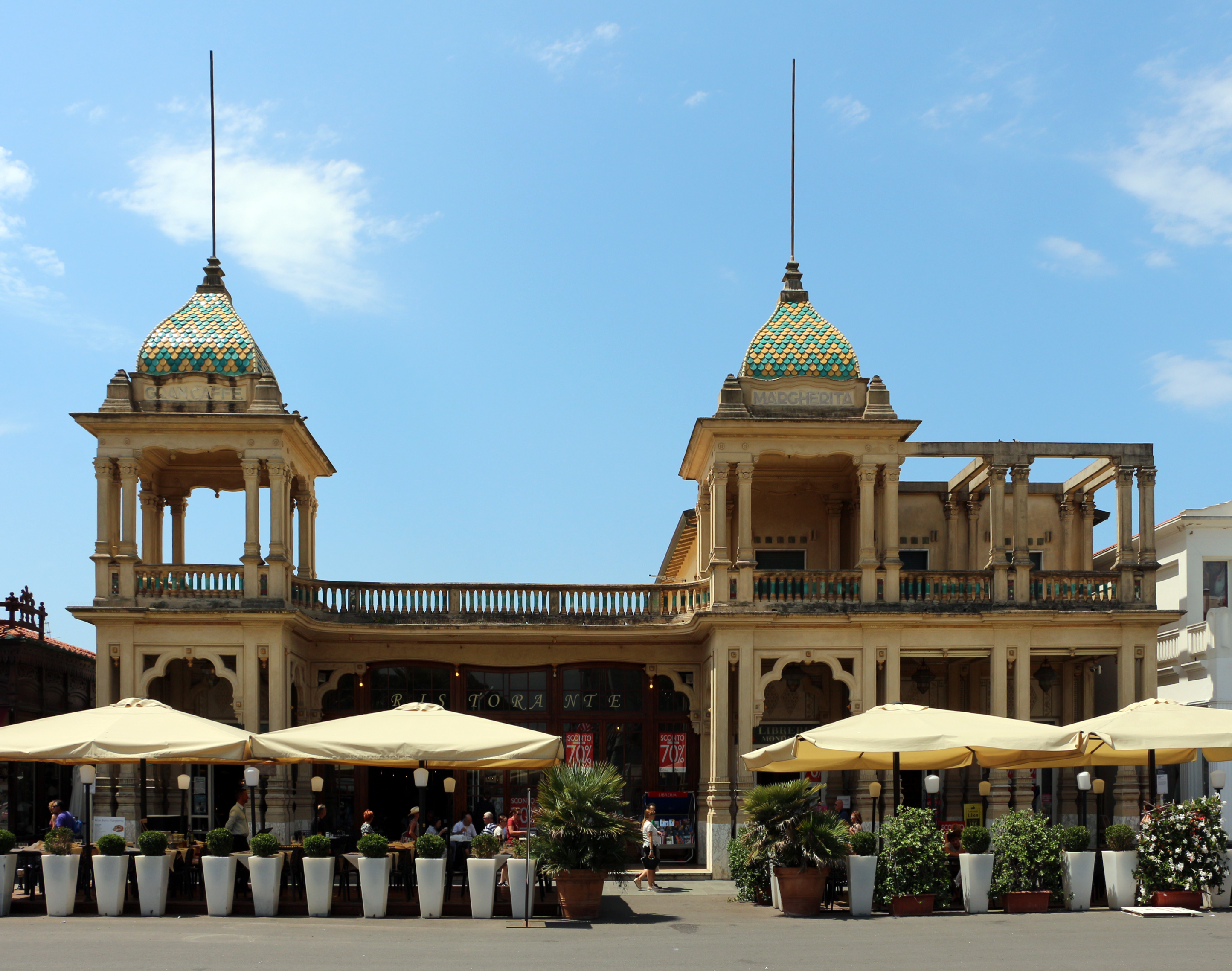 Viareggio